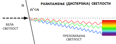 ДИСПЕРЗИЈА СВЕТЛОСТИ